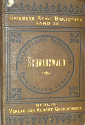 Cover of travel guide book entitled "Schwarzwald" published by Albert Goldschmidt of Berlin